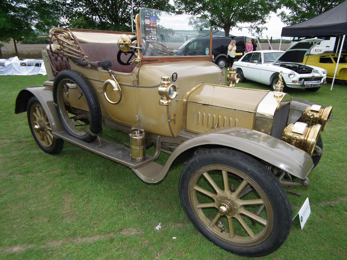 1911 Vulcan 15.9 open 2-seater4-cylinders 2413 cc chassis 1155 engine 1155 Kop Hill, Princes Risborough 2013